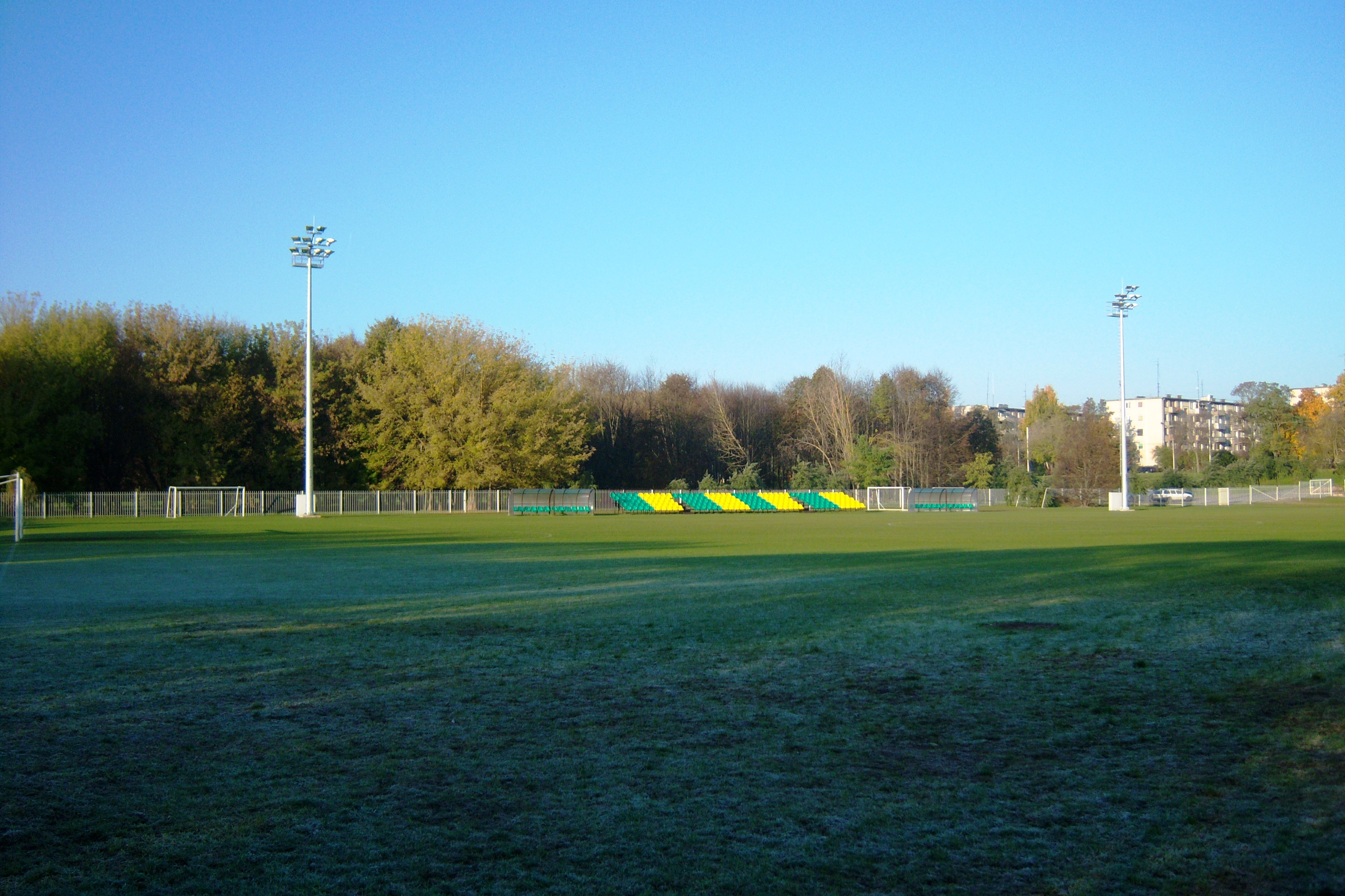 Neris Embankment Park, football school stadium, Kaunas, Lithuania